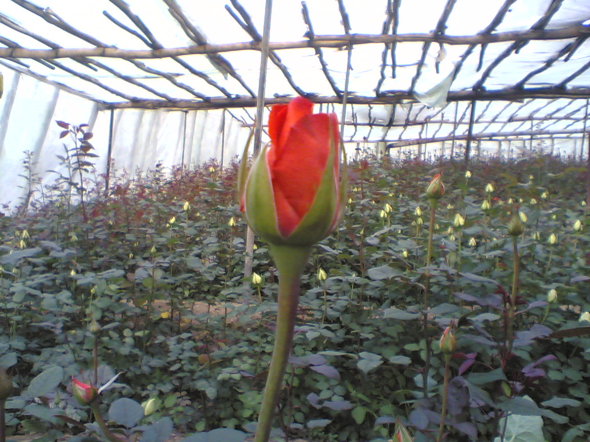 A Rose Garden in Penderjohn